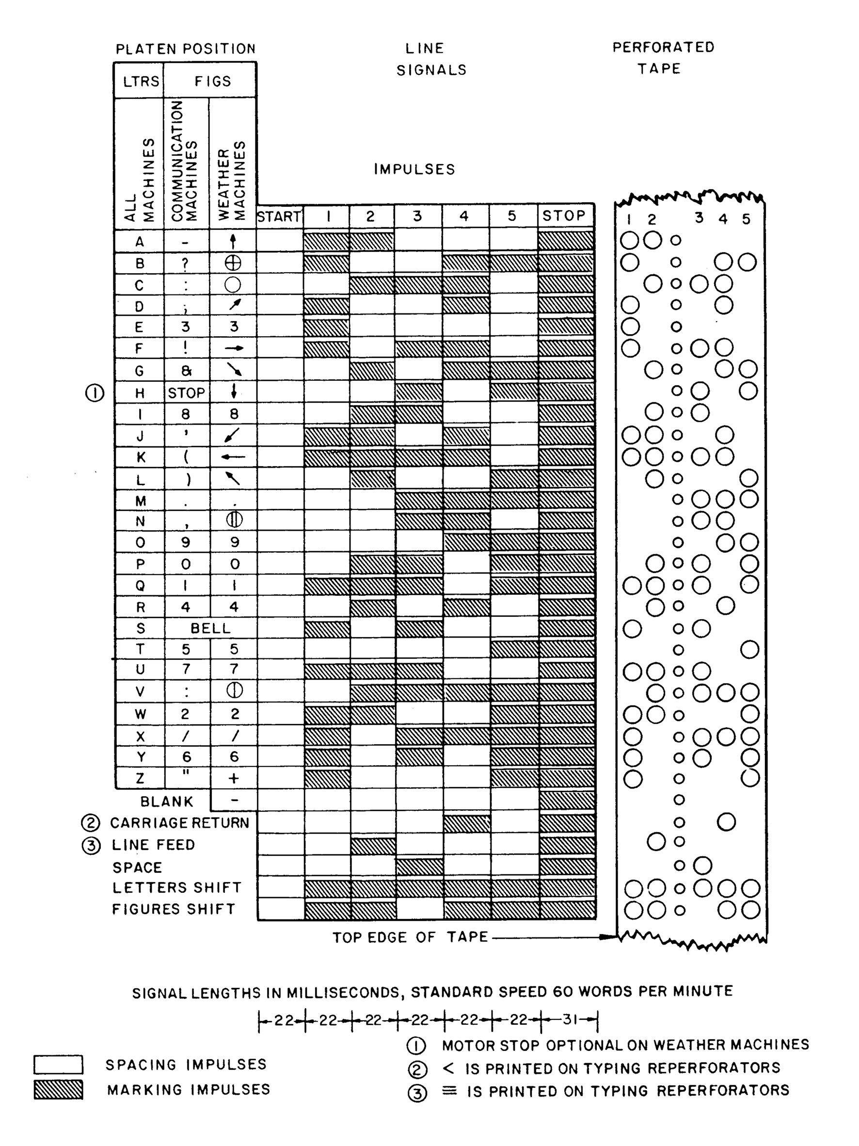 5 unit start/stop TTY code